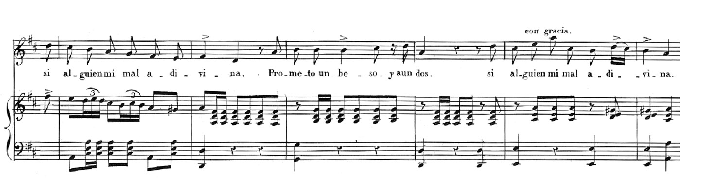 Estracto de El médico amor, Ecos de alegría, compuesta por Paulina Cabrero y Martínez.